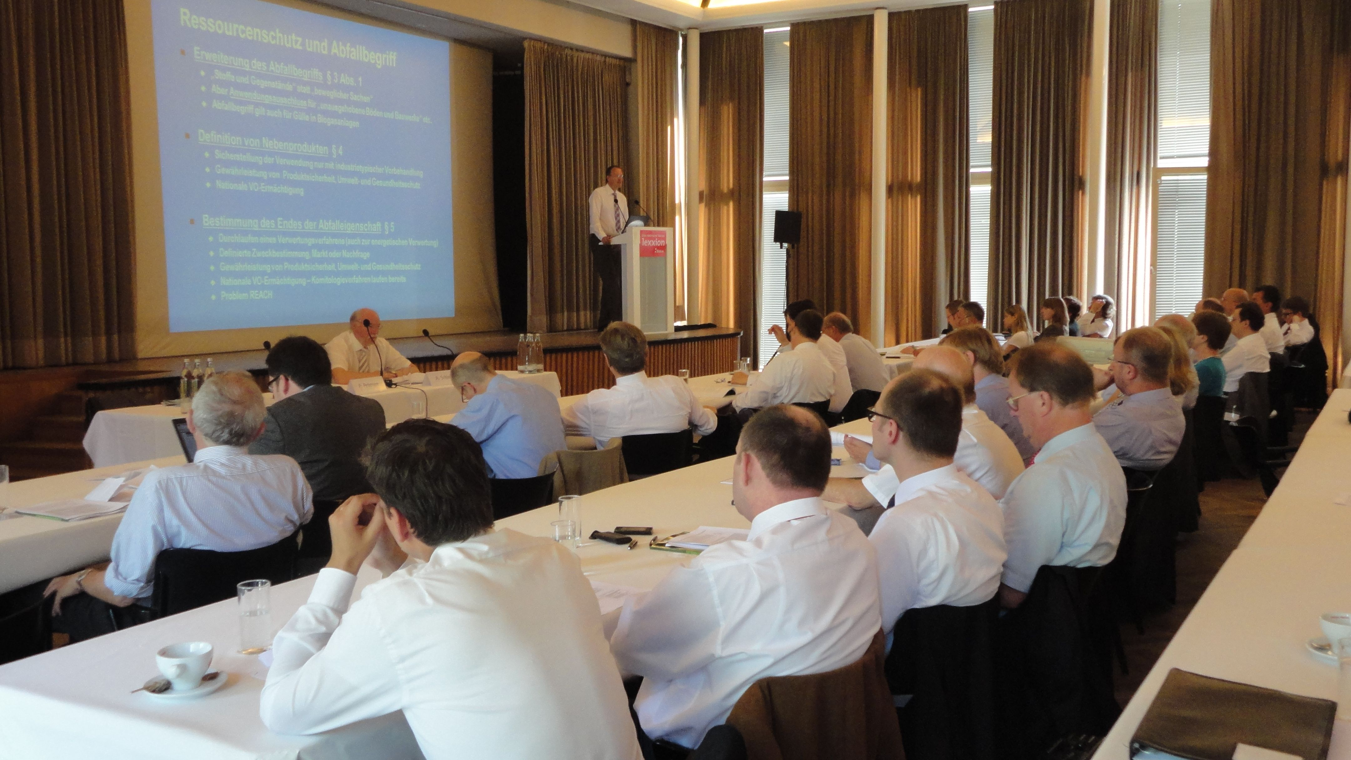 Düsseldorfer Abfallrechtstag 2012 of the Lexxion publisher in Düsseldorf